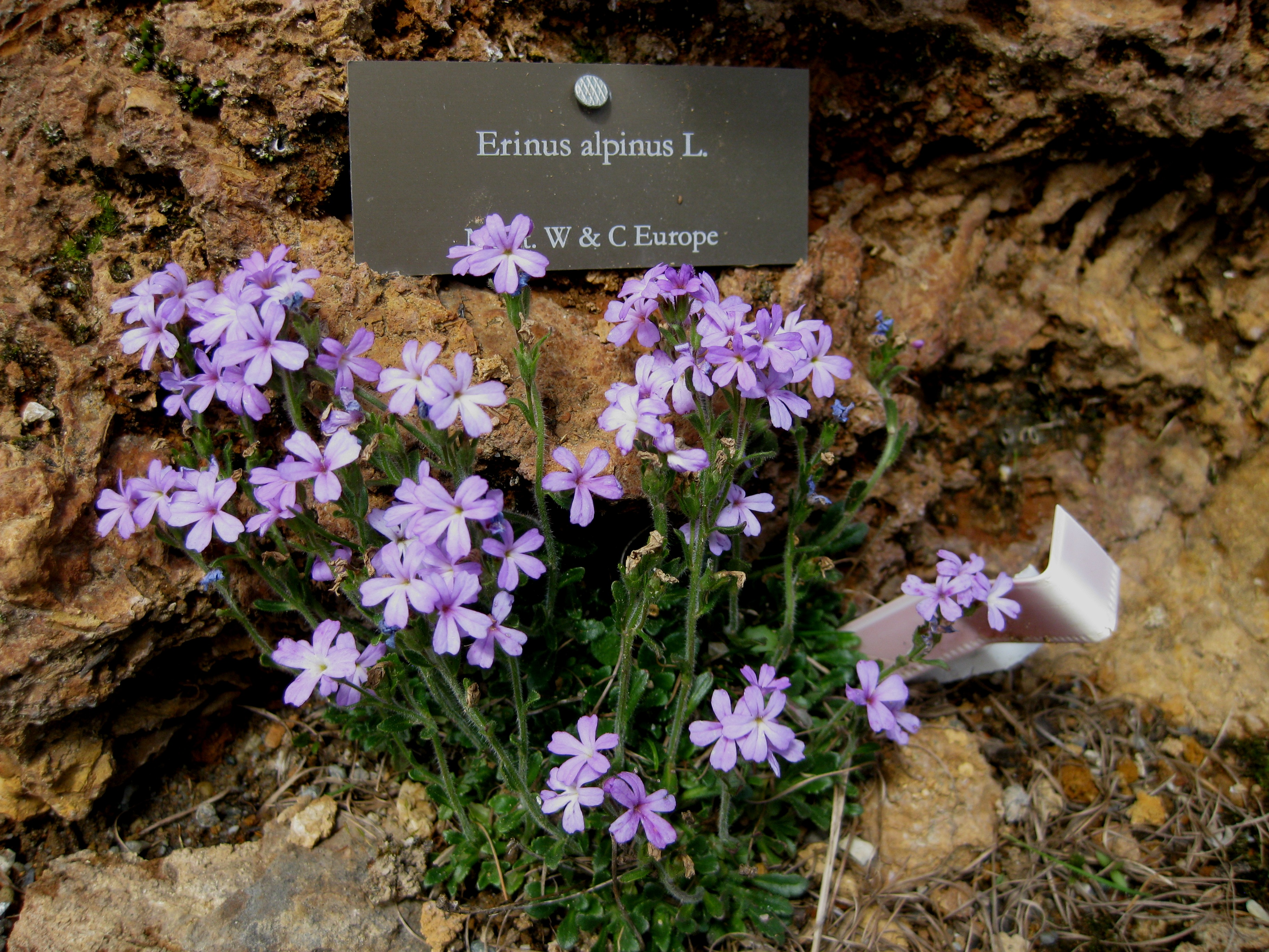 Erinus alpinus in the Jardin Botanique Alpin du Lautaret